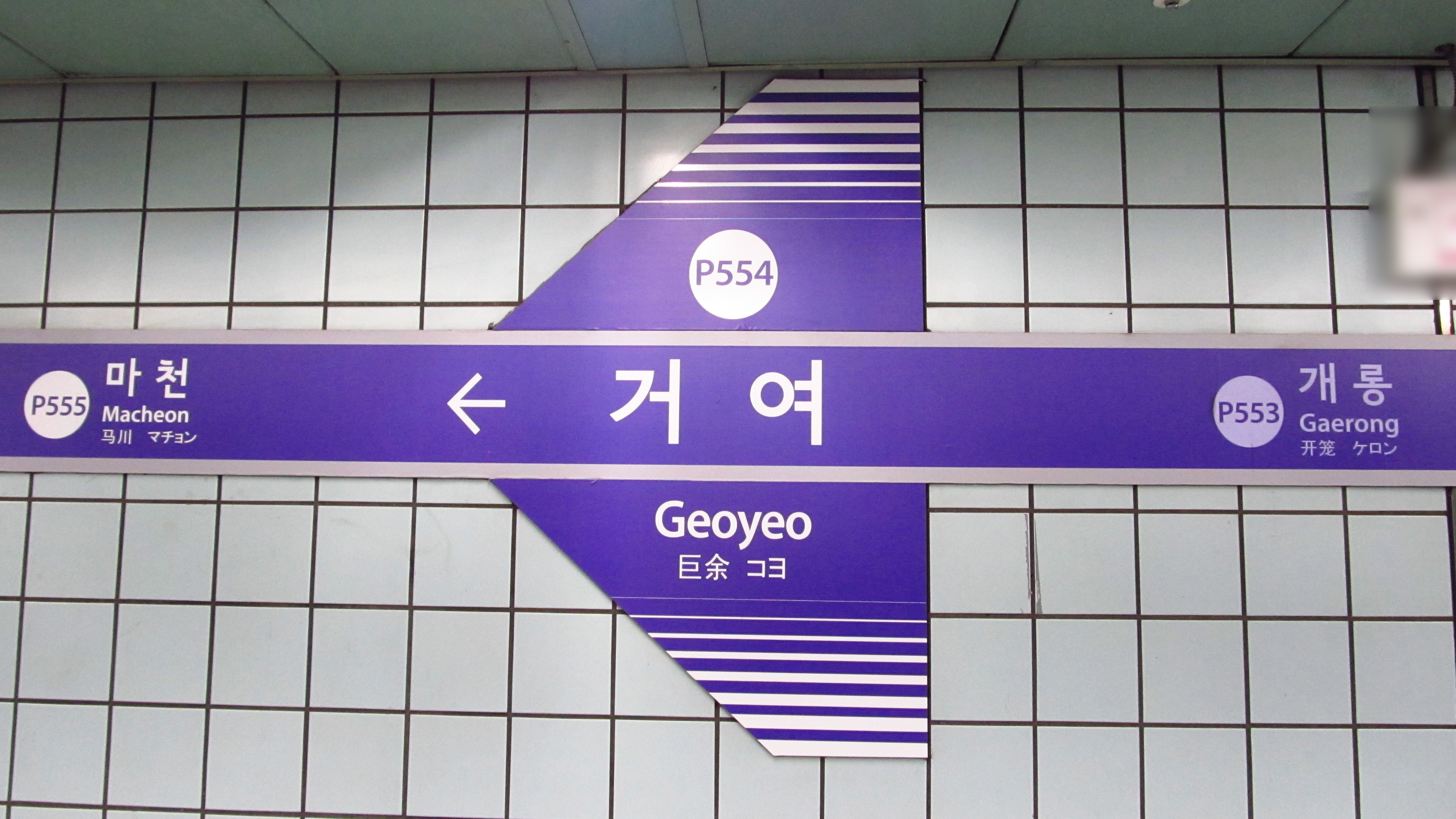 A sign of Geoyeo Station on Seoul Subway Line 5